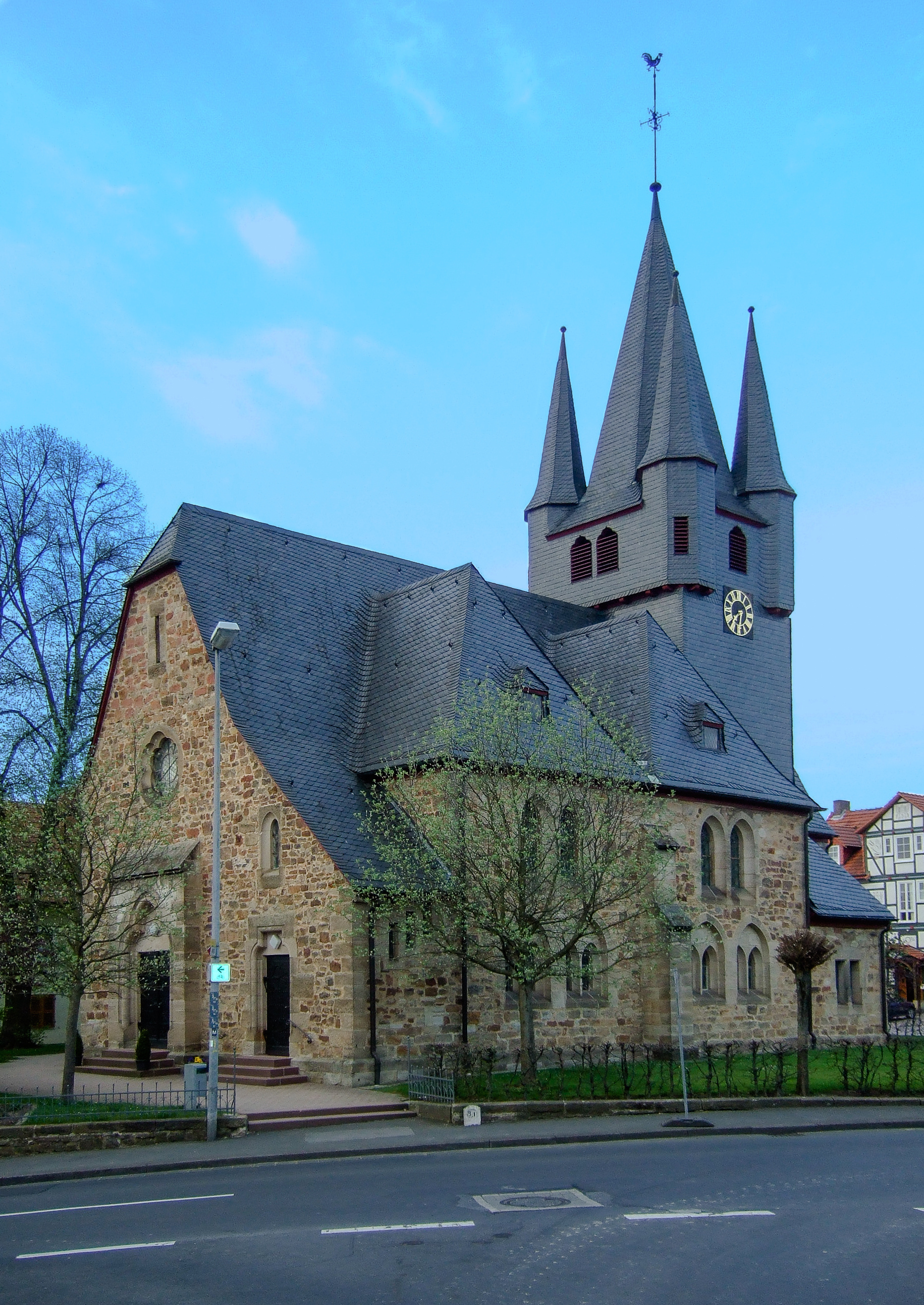 Protestantic church Wellerode